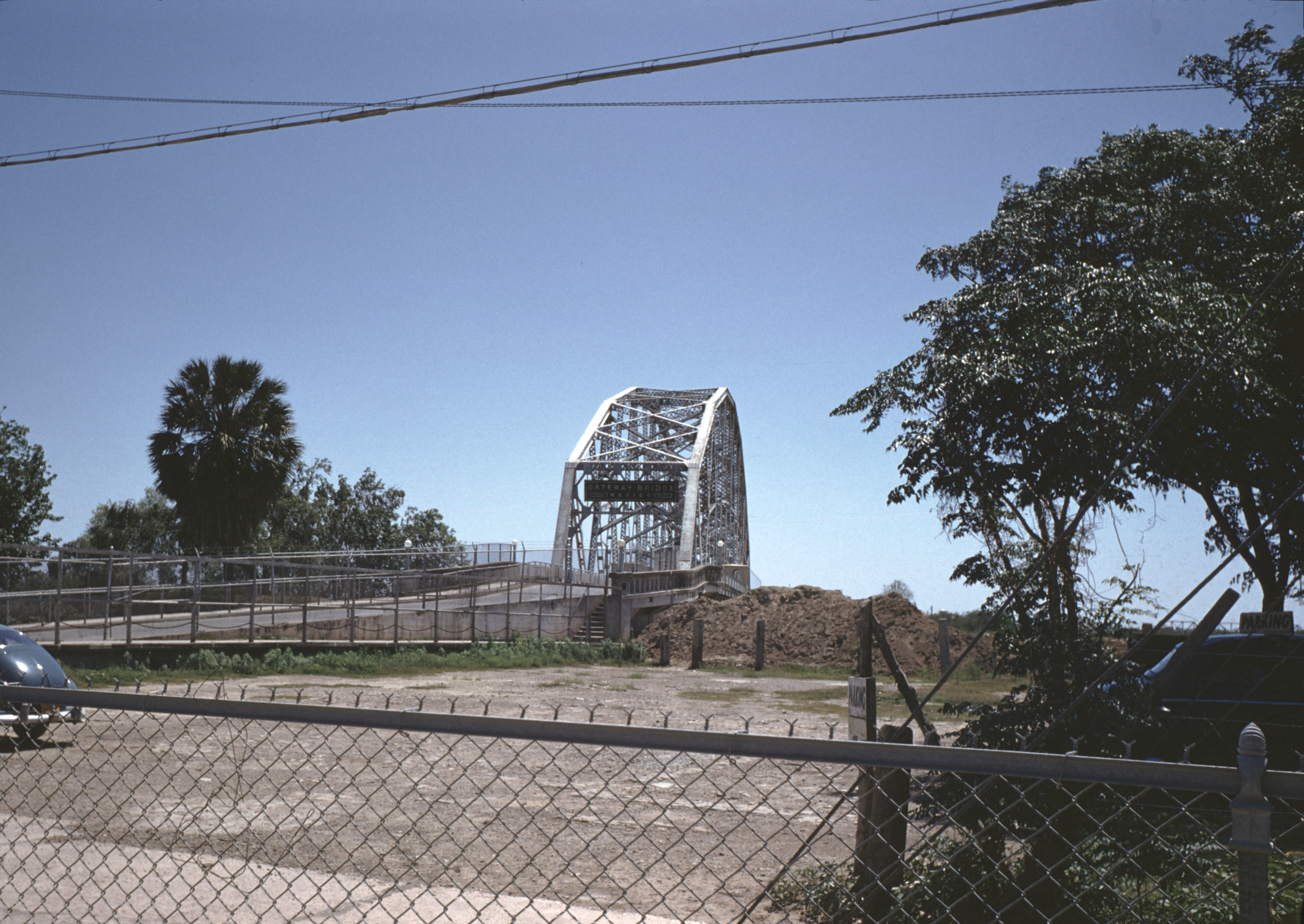 Photography by Victor Albert Grigas (1919-2017)